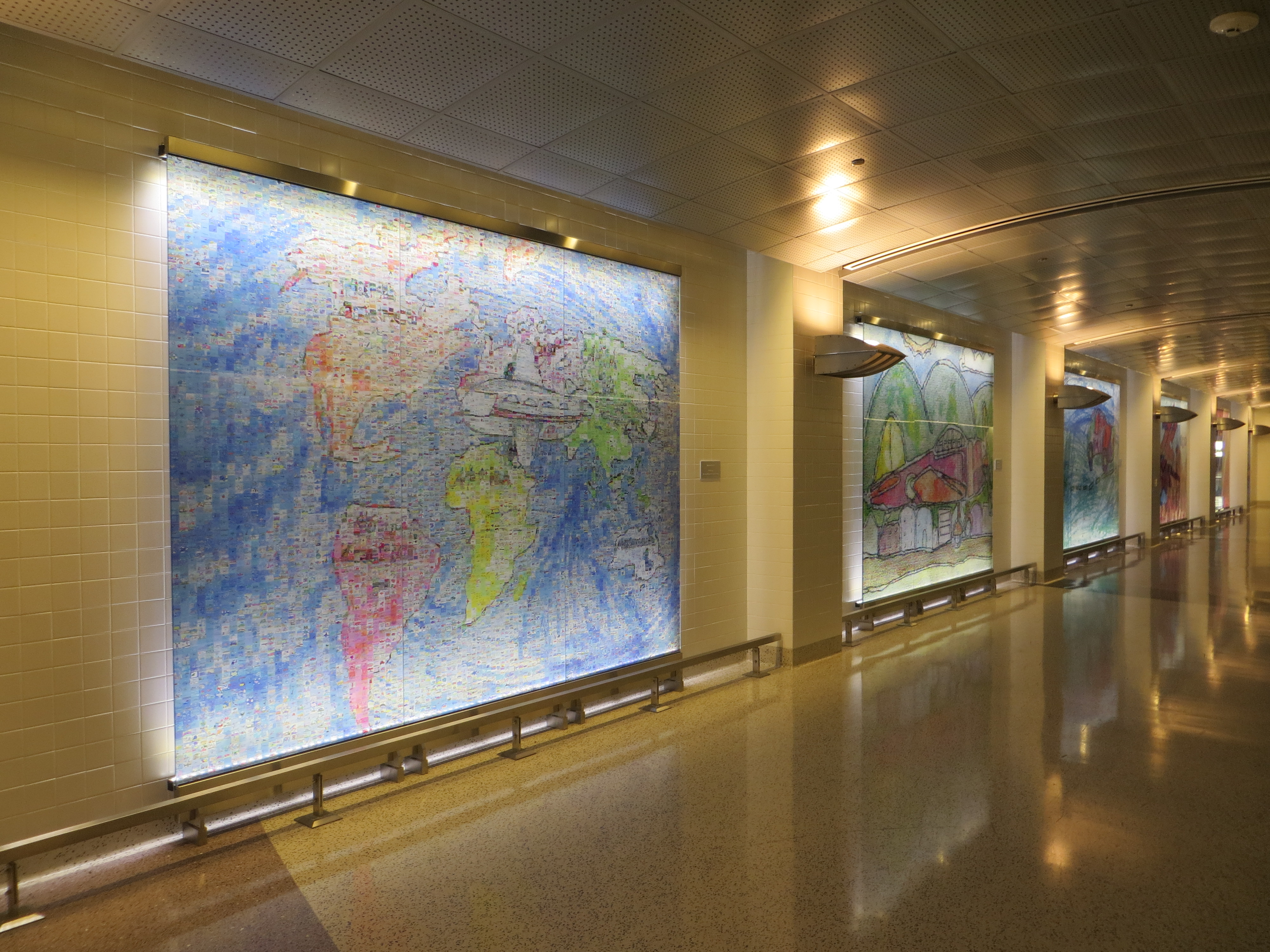 Artwork at the D-Gates tram station, created by elementary and middle school students.